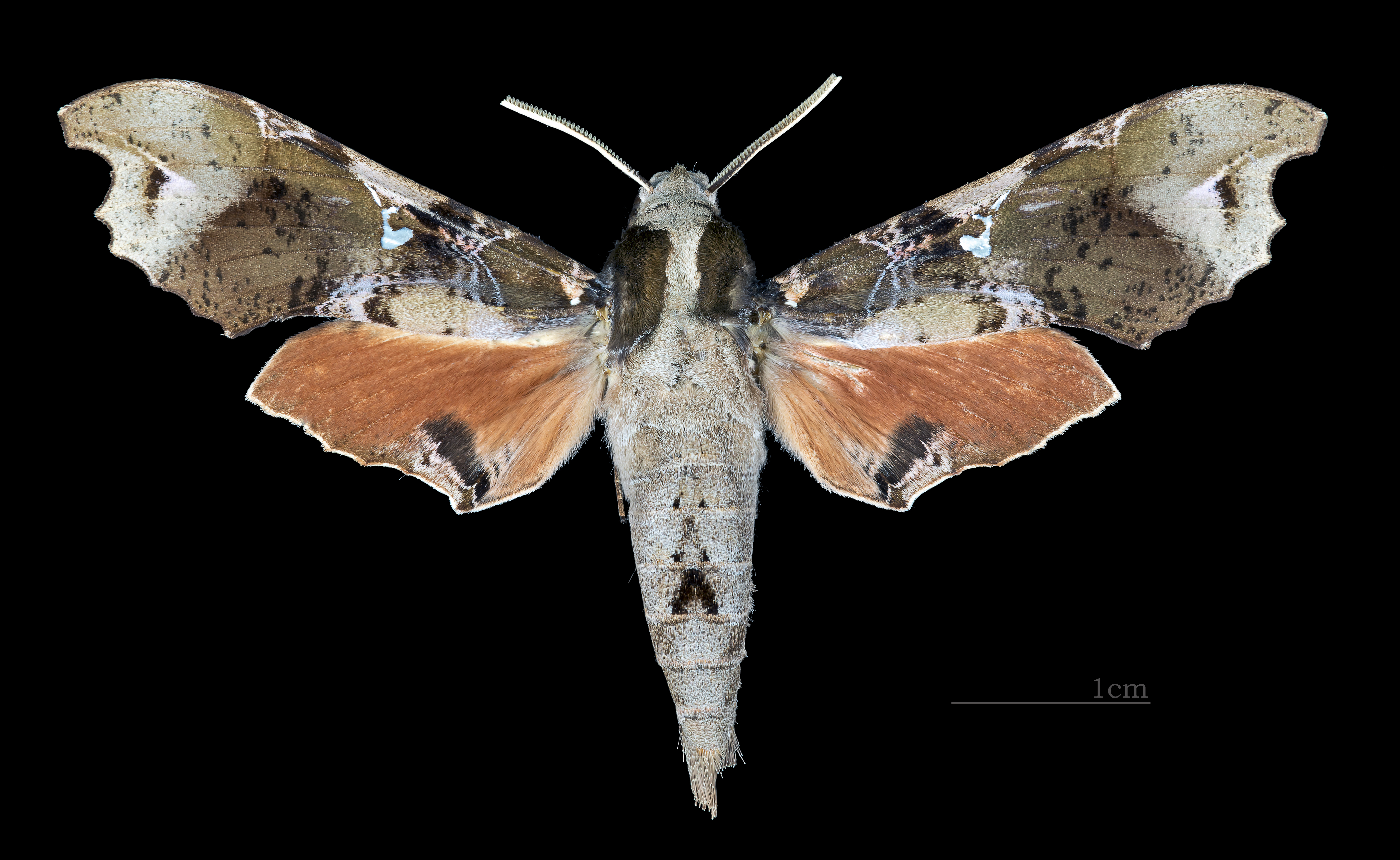 Callionima denticulata - Dorsal side Collection of the Mathematician Laurent Schwartz